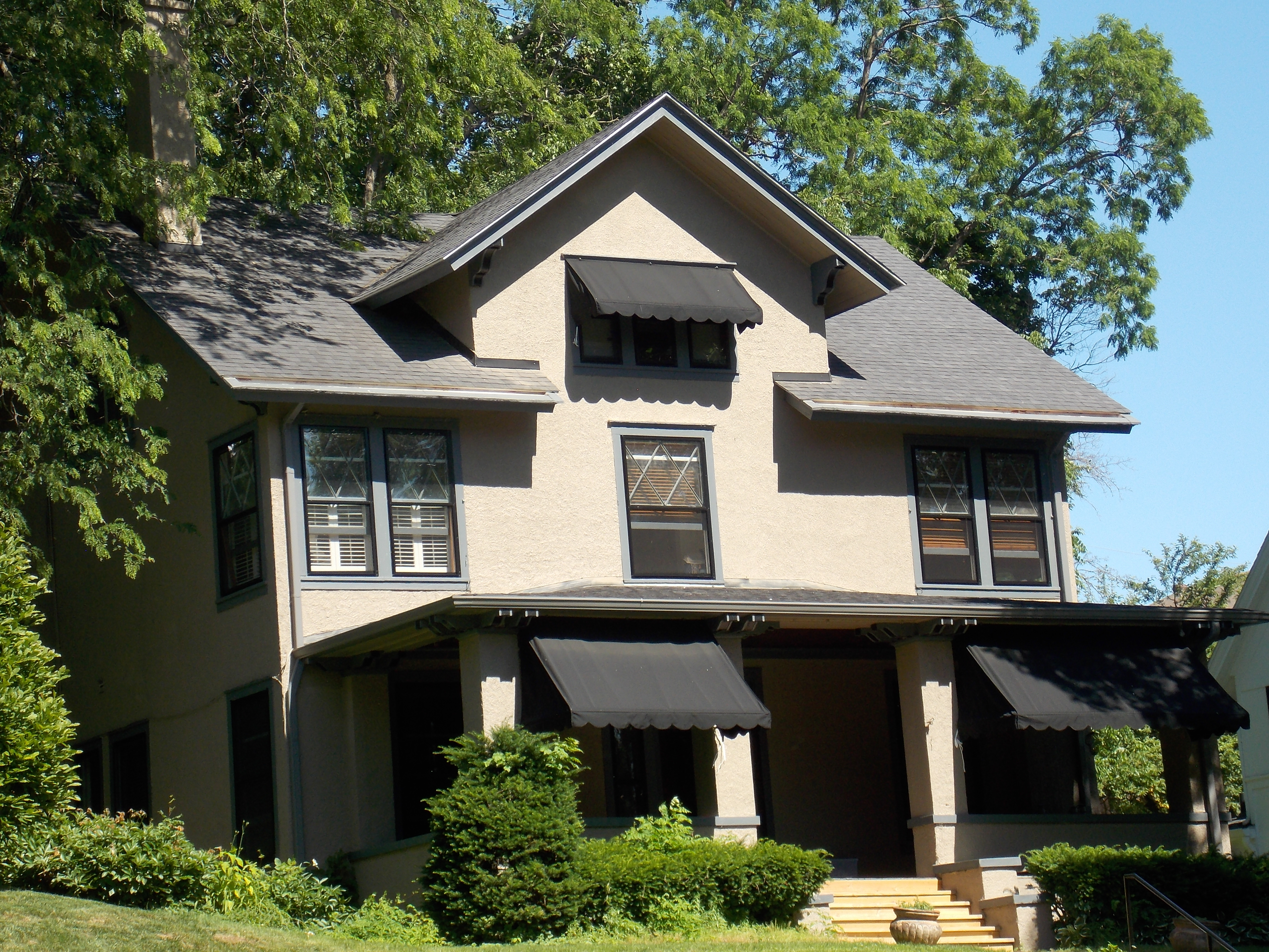 A house on Glenwood Avenue in the McClellan Heights neighborhood of Davenport, Iowa. It is a contributing property in the historic district.